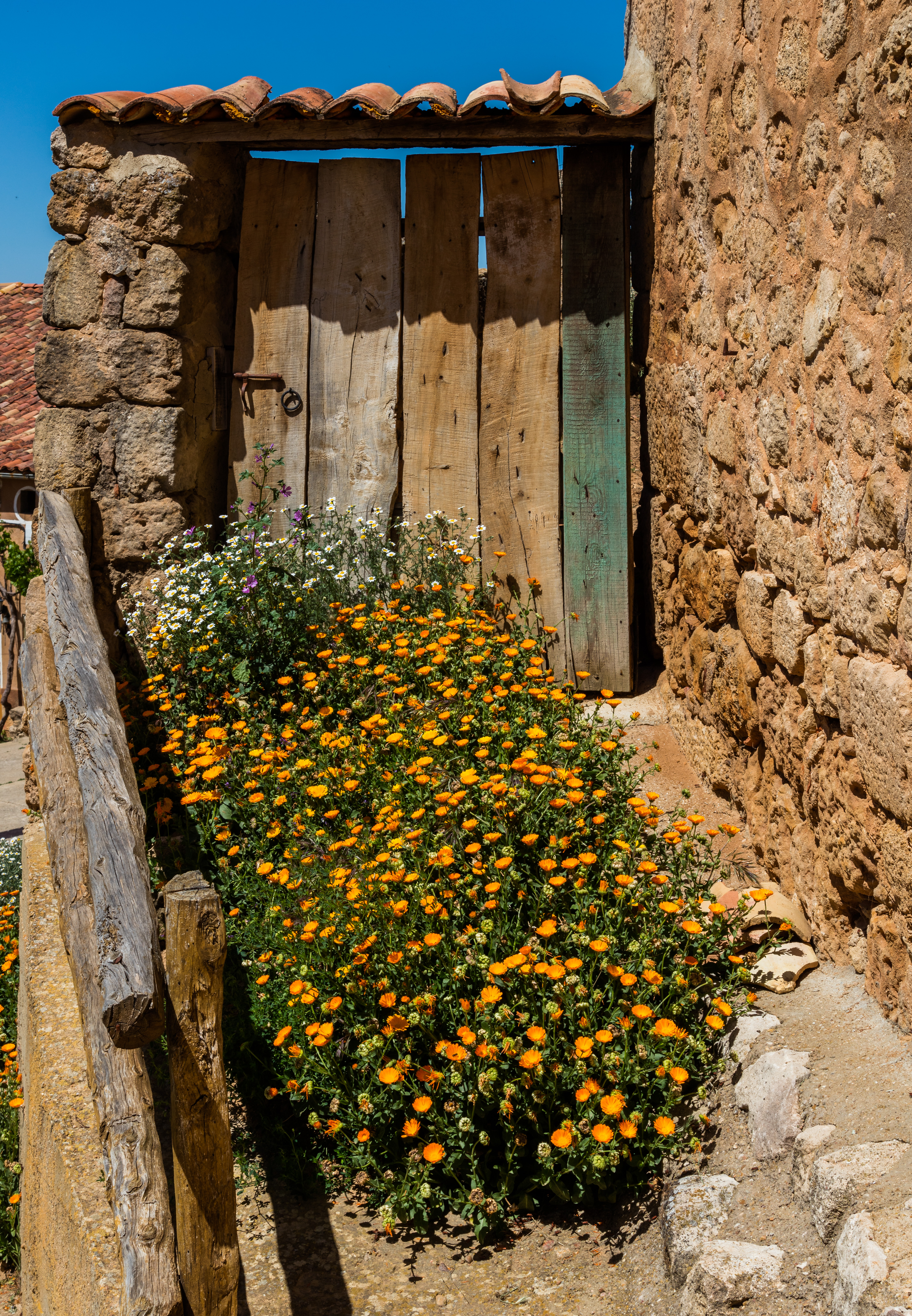 House in Moñúx, Soria, Spain